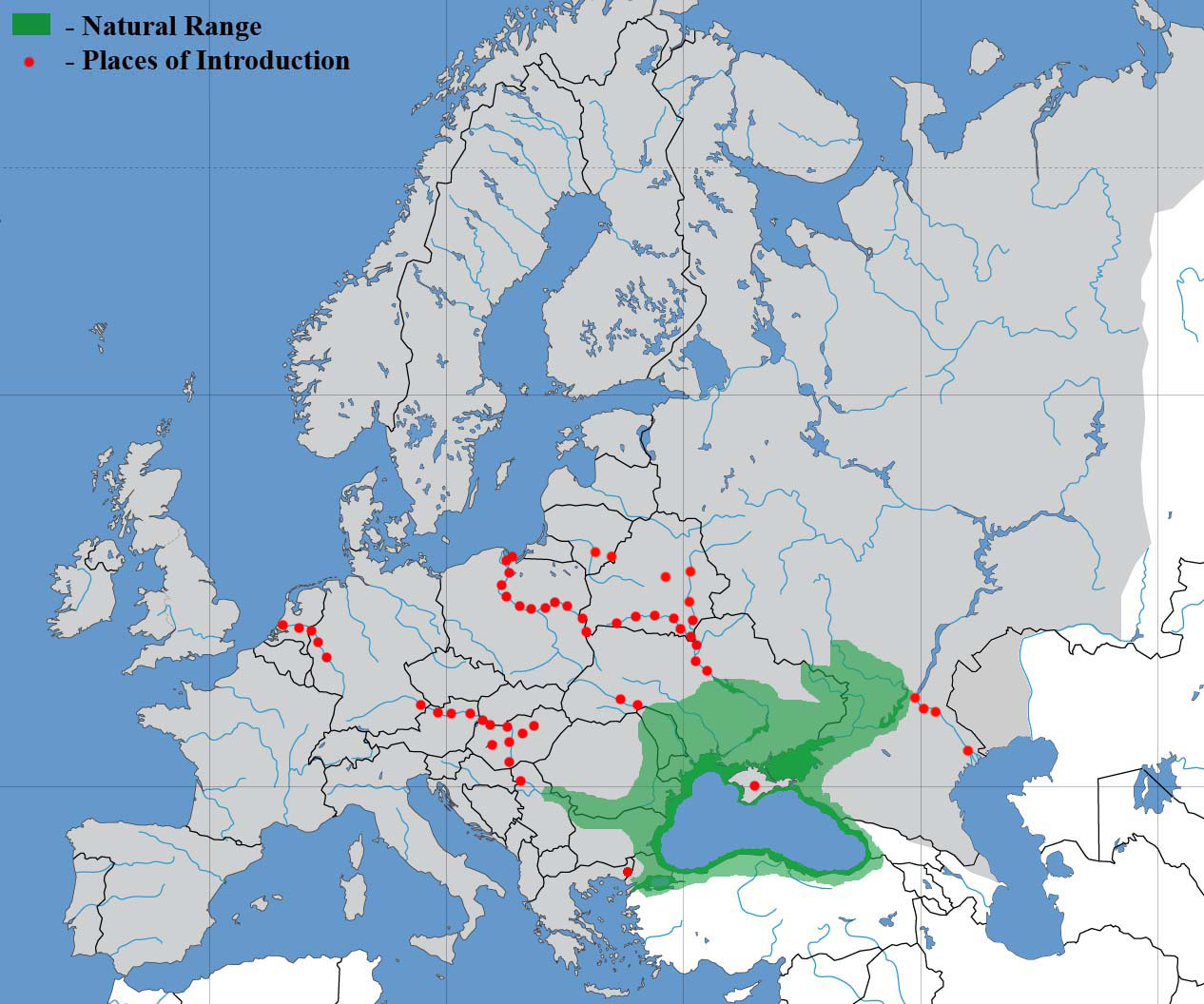 The range of the monkey goby (Neogobius fluviatilis)